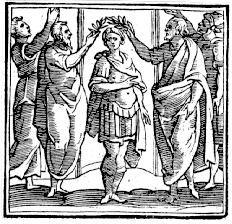 From Andrea Alciato's Emblemata; Thrasybulus being crowned with an olive garland.